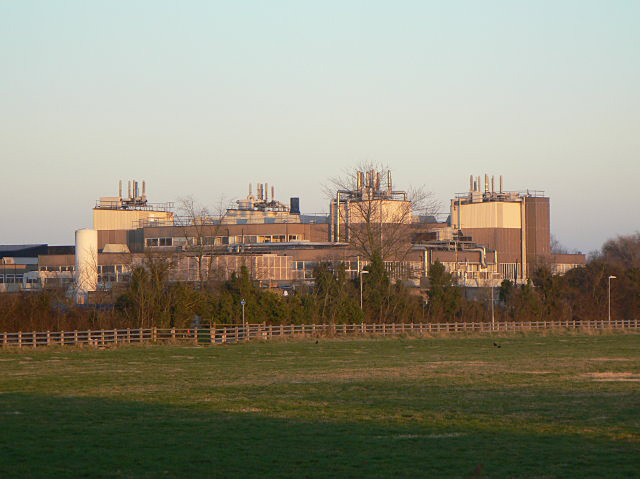 Cavendish Laboratory Part of modern University development off the Madingley Road, seen from the Harcamlow Way.